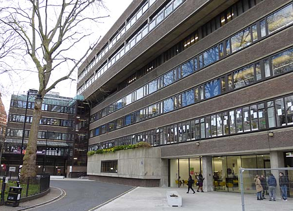 The main building of City University, London, UK, as seen from Northampton rtertetrtertetetetaken by Alan Ford, 2005-11-26.